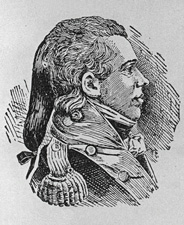 Samuel White of Delaware (1770-1809) Biographical Dictionary of the United States Congress.